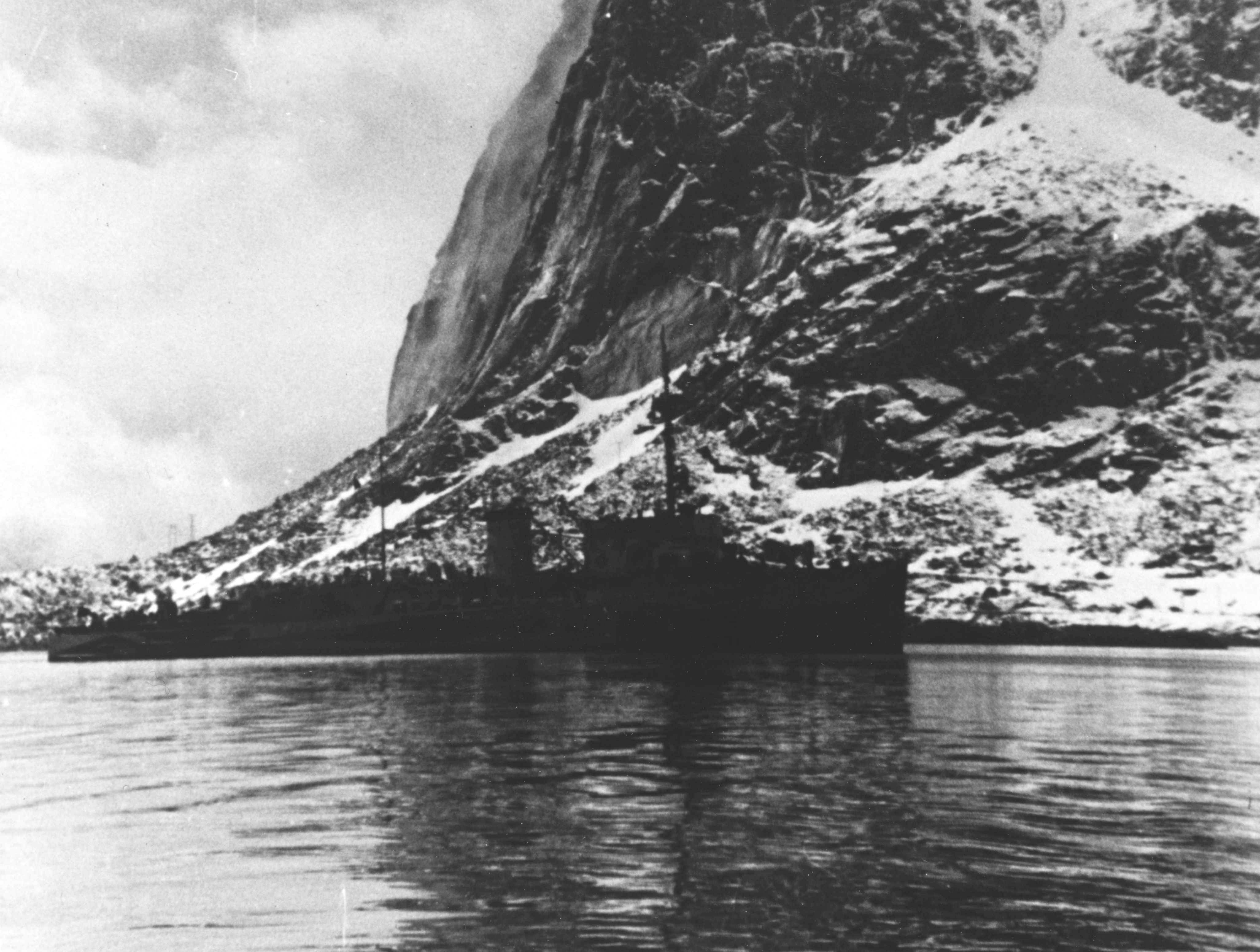 The German minesweeper tender Weser anchored off the Norwegian artic coast during the Second World War, with motor minesweepers alongside. The Weser was commissioned as an offshore patrol vessel on 14 November 1931. She was converted to a tender for minesweepers in September-October 1939 and served in that role until 1953, 1945 to 1953 under British command (albeit with a German crew). Weser was scrapped in the Netherlands in 1954. From 15 October 1940 to 8 May 1945, Weser was the tender of the 7. Räumbootsflottille (7th minesweeping flotilla). this unit operated from Kirkenes, Norway, after June 1941. In May 1945, Weser capitulated in Tromsø.